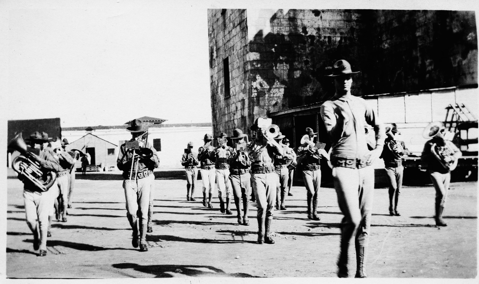 First Regiment Band, US Marine Corps. Fort Ozama is the building on the right.